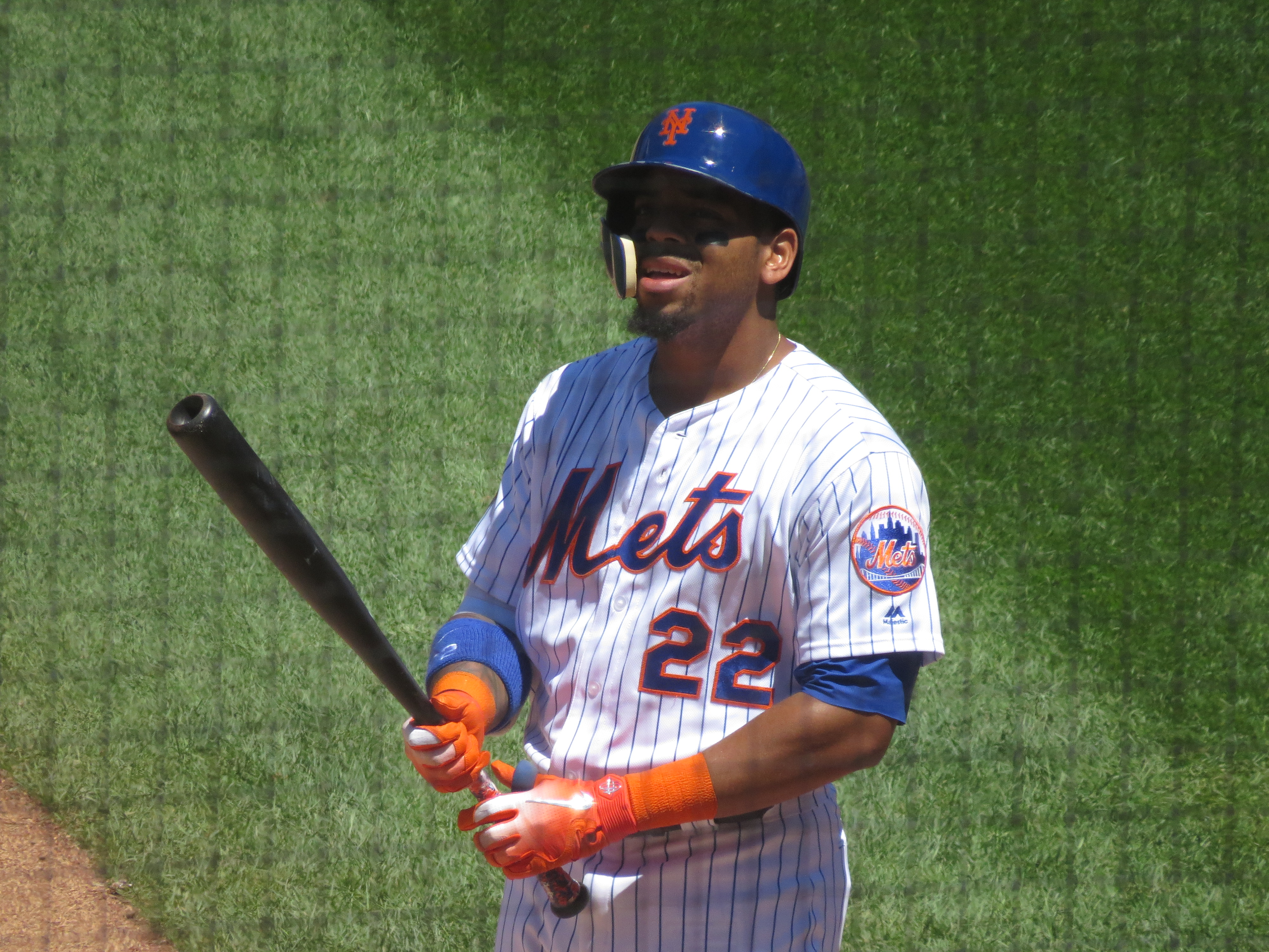 Dom Smith of the Mets batting on June 24, 2018